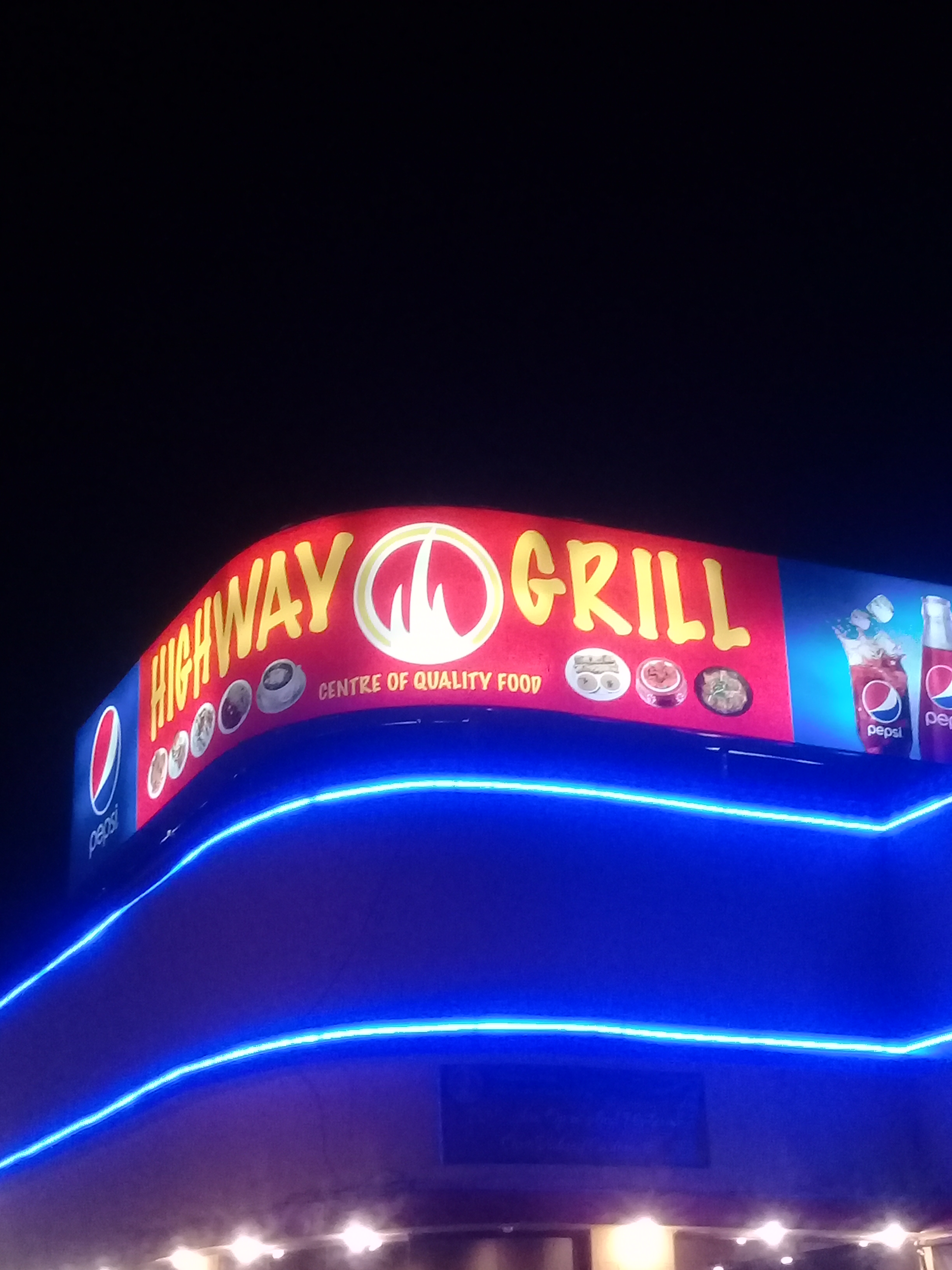 Night view of a restaurant in Nooriabad.